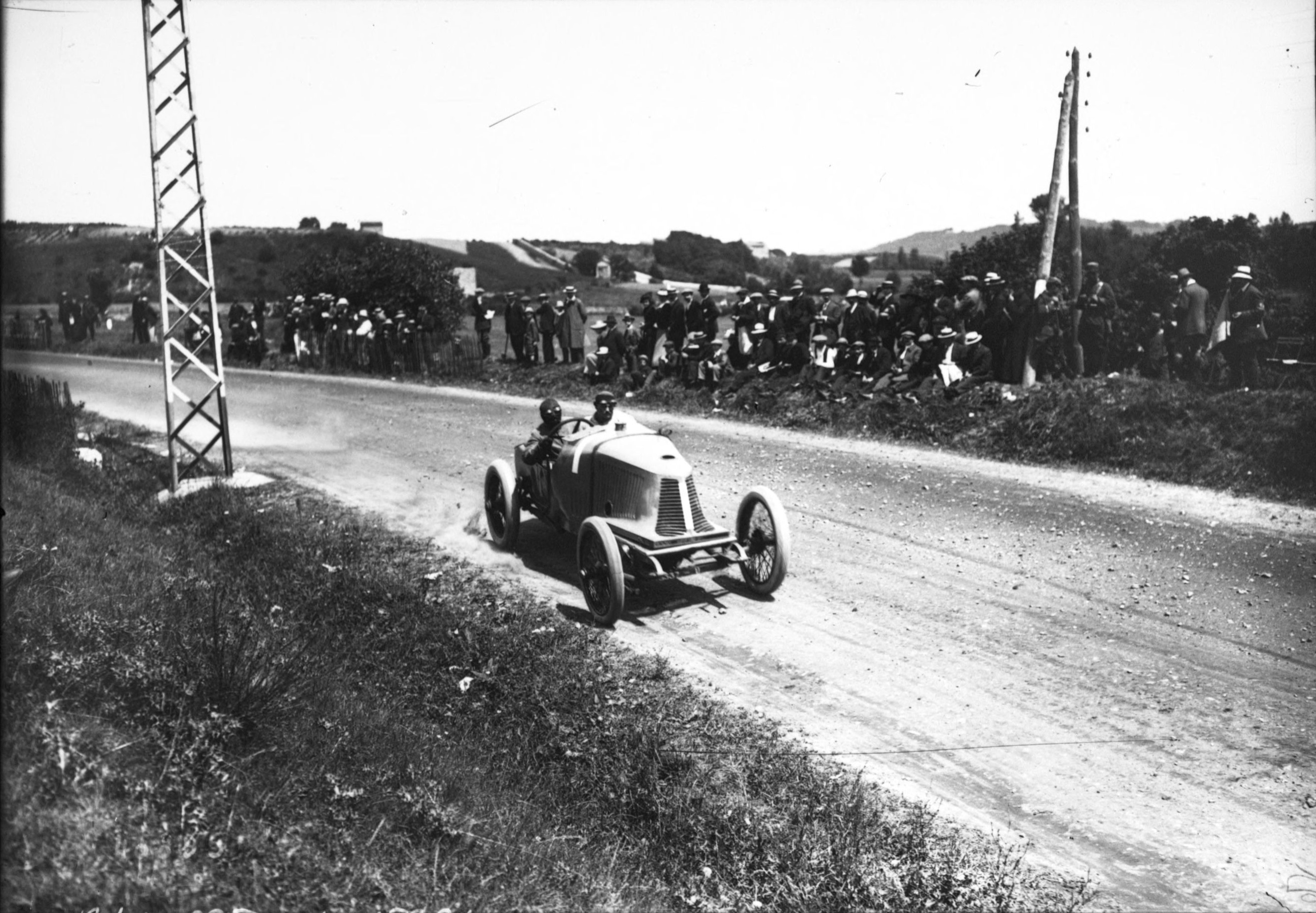 Ferenc Szisz at the 1914 French Grand Prix